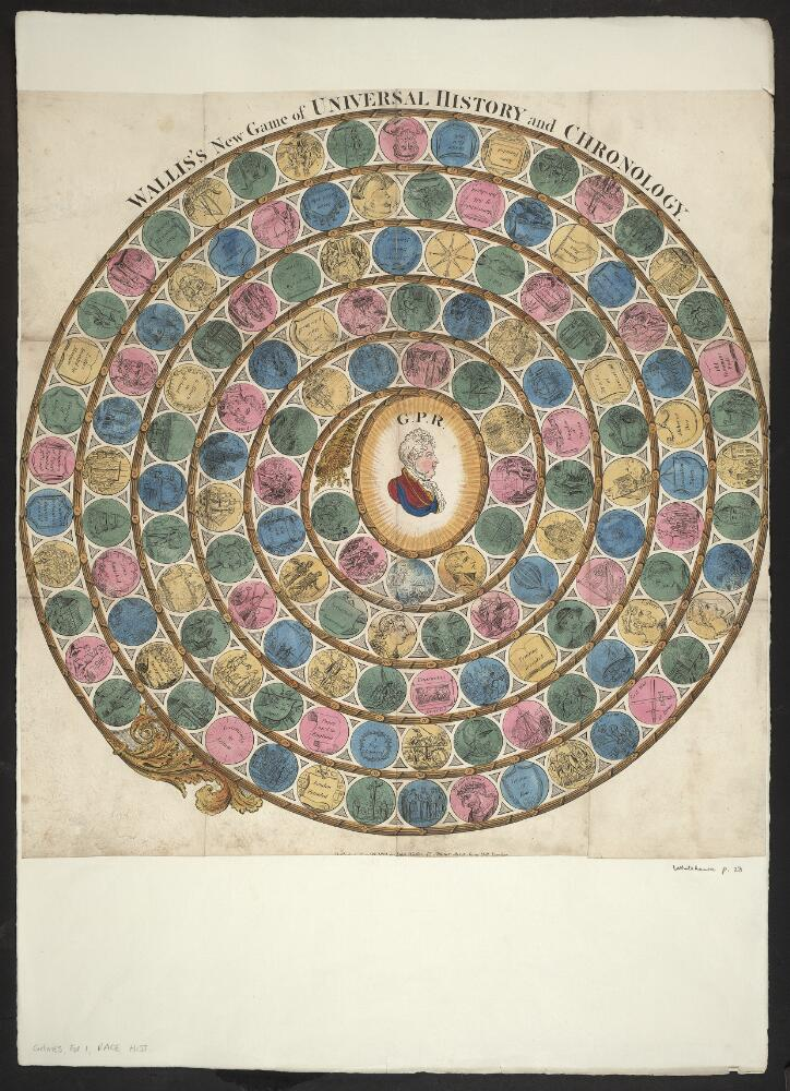 Game of 1814 entitled Wallis's new game of universal history and chronology; 138 circles, many without text. Explained in book of rules (lacking); Babylonish & Assurian empires founded (5); Kingdom of Egypt founded 18th centy. (6); Kingdom of Sicyon (7); Letters invented by Memmon (8); Athens founded by Lecrops (11); Ten tribes in the Jews revolt (15); Money first made (17); Rome founded (18); Babylon taken (21); Thermopyla (23); Old Testament ends (24); Socrates (25); Alexander (27); Darius (28); Dionysus (29); Civil War at Rome (31); Caesar in Britain (32); Death of Caesar (33); Census at Rome (34); Messiah born (35); London founded (38); Christianity in Britain (40); Jerusalem destroyed (41); Jew's banished (44); First Pope (45); Constantine (48); Fergus (49); Pharamond (50); Romans evacuate Britain (51); Saxon heptarchy (53); Dionycius (54); Manufacture of silk introduced (56); Mahomet born (58); Latin ceased to be spoken in Italy (59); St. Paul's (61); Mohamet dies (62); Jerusalem taken (63); Danes (64); Charlemagne (65); Egbert (66); Alfred the Great (70); Pope deposed (72); Paper used in England (73); Massacre of the Danes (74); Hastings (76); Tower Hill (77); Holy War (78); K. Henry in Ireland (81); Geography in England (84); Magna Charta (85); Austrian Empire founded (86); Wales united (88); Turkish Empire founded (89); Republic of Switzerland (91); France subdued (95); Wickliffe (96); Printing invented (97); Engraving invented (99); Columbus (101); South America (102); Gustavus Vasa (104); Shakespeare (107); New style introduced (109); K. Charles (111); First lottery (114); Kingdom of Prussia (115); George III (121); Longitude discovered (122); War with America (124); Botany Bay (127); Poland divided (130); Napoleon (134); G.P.R.; Wallis's new game of universal history and chronology